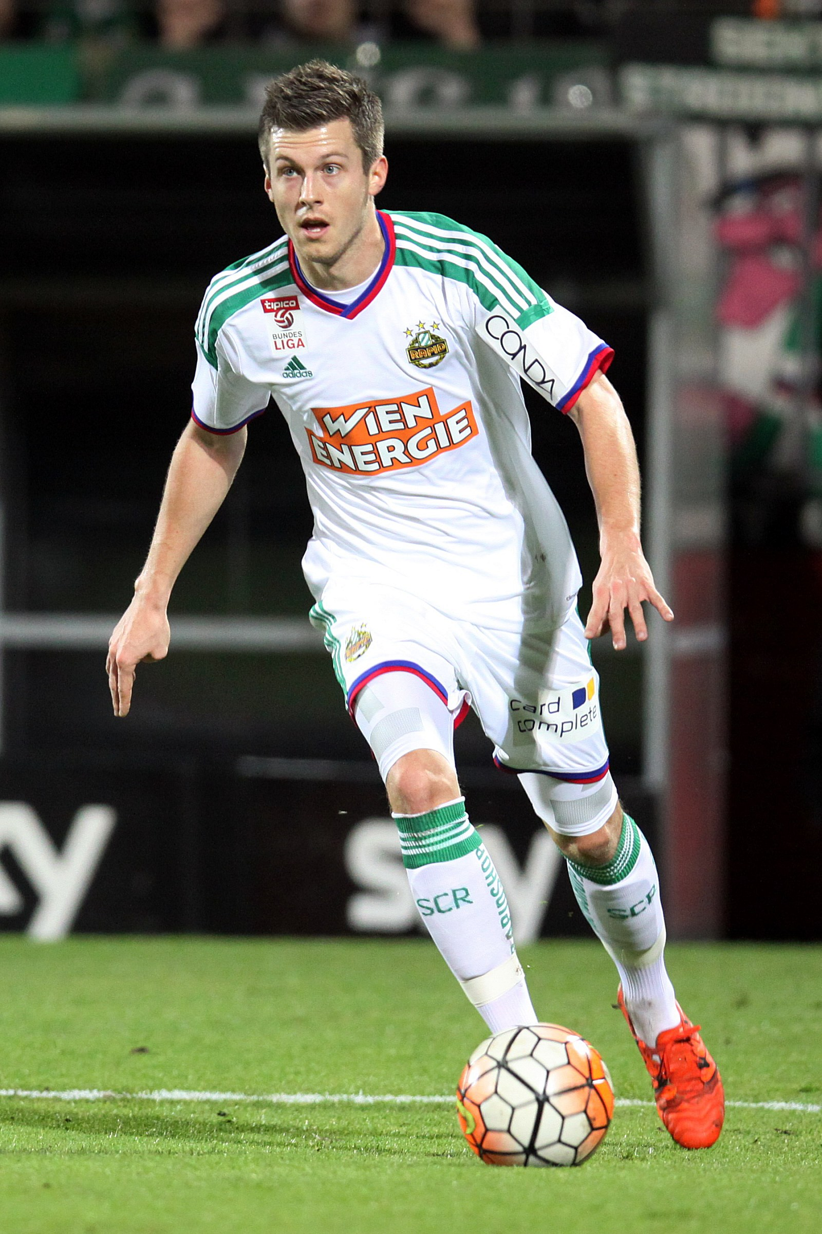 Match of the Austrian Football Bundesliga – FC Admira Wacker Mödling (red shirts) vs. SK Rapid Wien (white shirts) 2-1 (0-1) on 2015-12-02 in Bundesstadion Sudstadt – The photo shows Deni Alar.